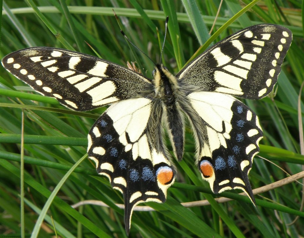 Old world Swallowtail british subspecies Papilio machaon brittanicus taken at RSPB Strumpshaw Fen. It is sitting on a mix of grasses and sedges. This species is slightly smaller and slightly deeper yellow than those found on mainland Europe